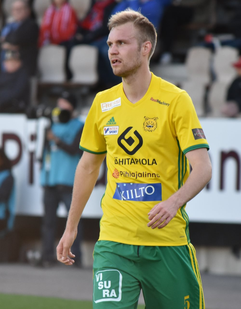 Football player Jani Tanska (FC Ilves)